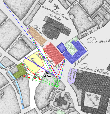 Marketplace of Bremen in 1796; except of the of the Börse (stock exchange), the built up areas are almost the same as in 1638; coloured rays: Green = pretended but impossible view of Merian's presentation Red, lilac & blue = possible points of view excluding one or more features, each.